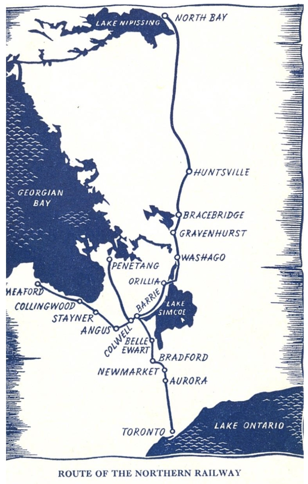 Route of the Northern Railway of Canada, some time in the 1890s. The original mainline runs from Toronto to Barrie, and then to Collingwood. The extension of the original line from Collingwood to Meaford is the North Grey Railway. The short branch from outside Barrie to Penetang was the North Simcoe Railway. The long extension from Batty to North Bay is the Northern and Pacific Junction Railway.